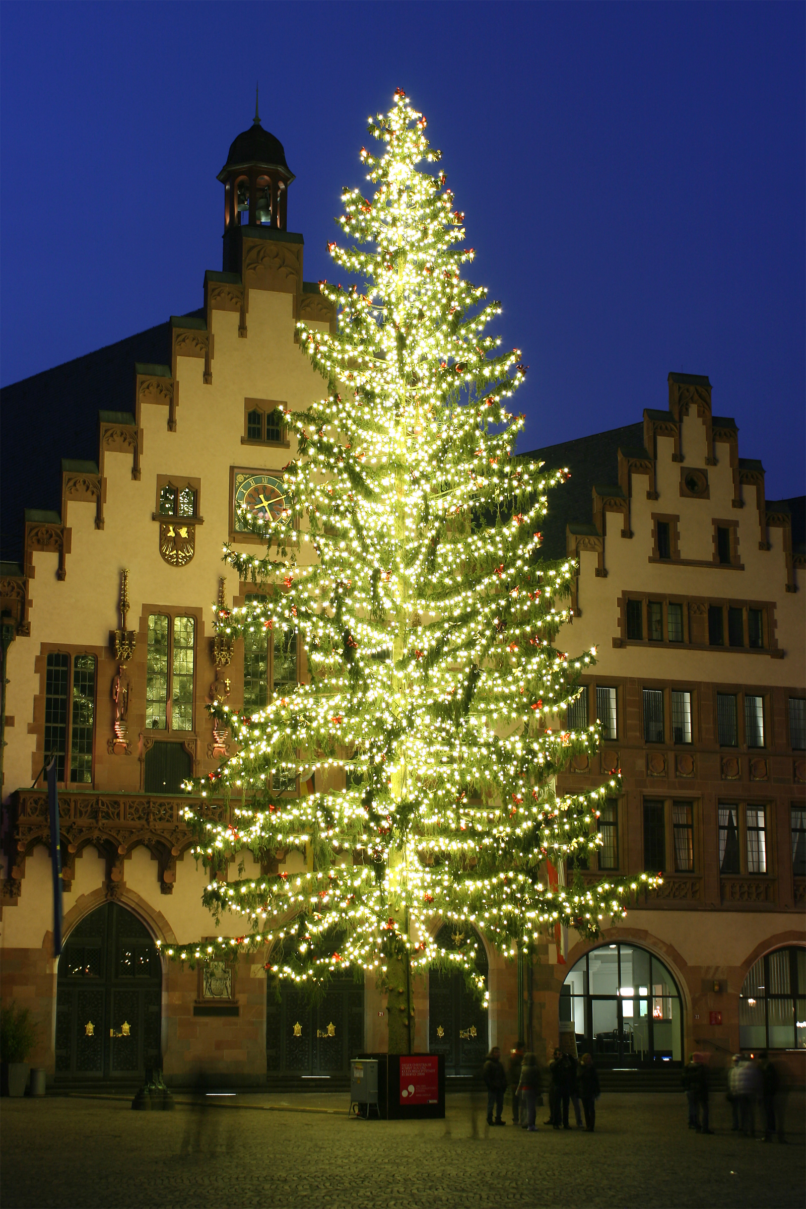 The largest german Christmas tree of the year 2008 in Frankfurt am Main